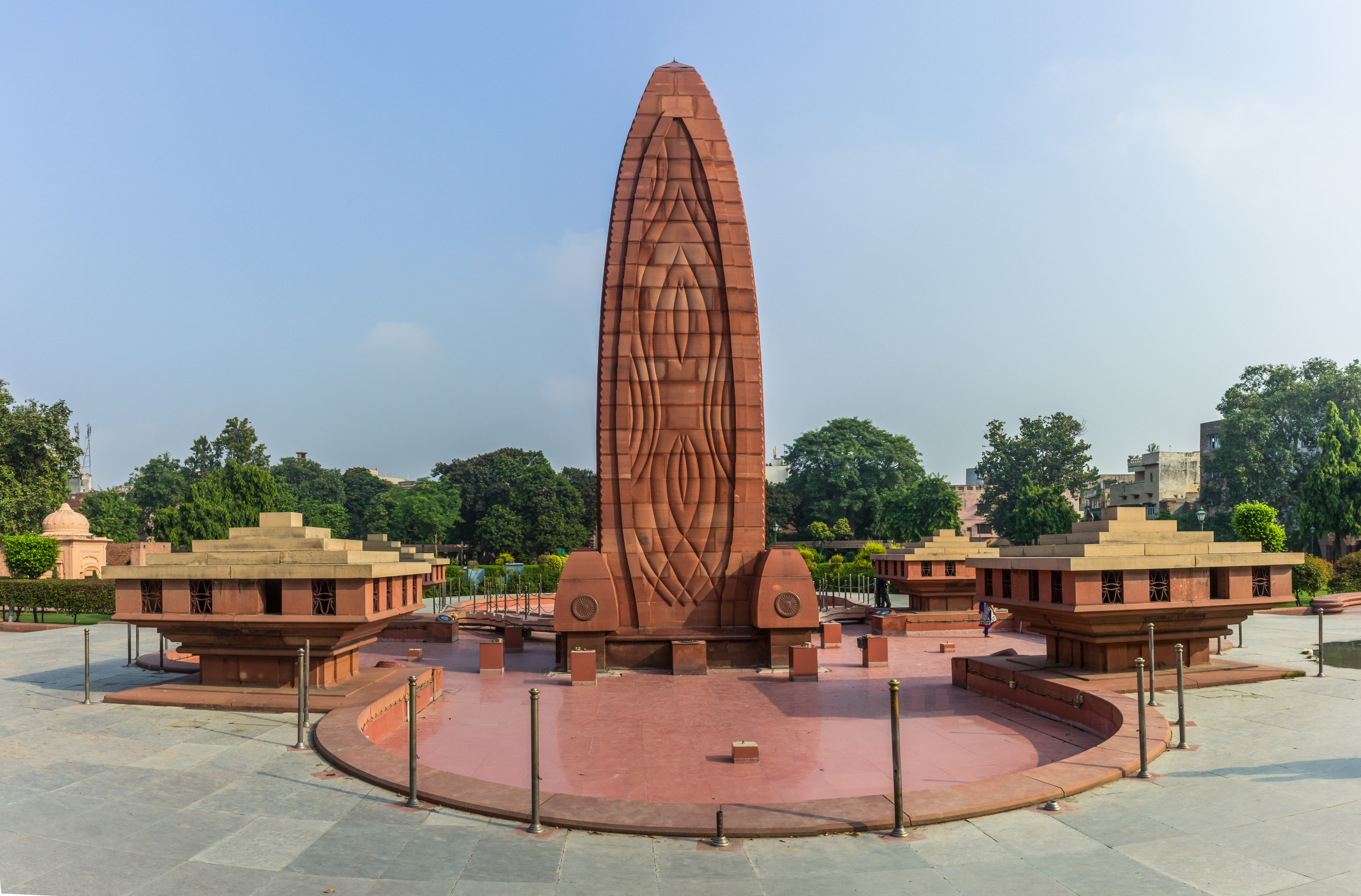 NOTE: This image is a panorama consisting of multiple frames that were merged or stitched in software. As a result, this image necessarily underwent some form of digital manipulation. These manipulations may include blending, blurring, cloning, and colour and perspective adjustments. As a result of these adjustments, the image content may be slightly different from reality at the points where multiple images were combined. This manipulation is often required due to lens, perspective, and parallax distortions. Jallianwala Bagh (Hindi: जलियांवाला बाग) is a public garden in Amritsar in the Punjab state of India, and houses a memorial of national importance, established in 1951 by the Government of India, to commemorate the massacre of peaceful celebrators including unarmed women and children by British occupying forces, on the occasion of the Punjabi New Year on April 13, 1919 in the Jallianwala Bagh Massacre. Colonial British Raj sources identified 379 fatalities and estimated about 1100 wounded